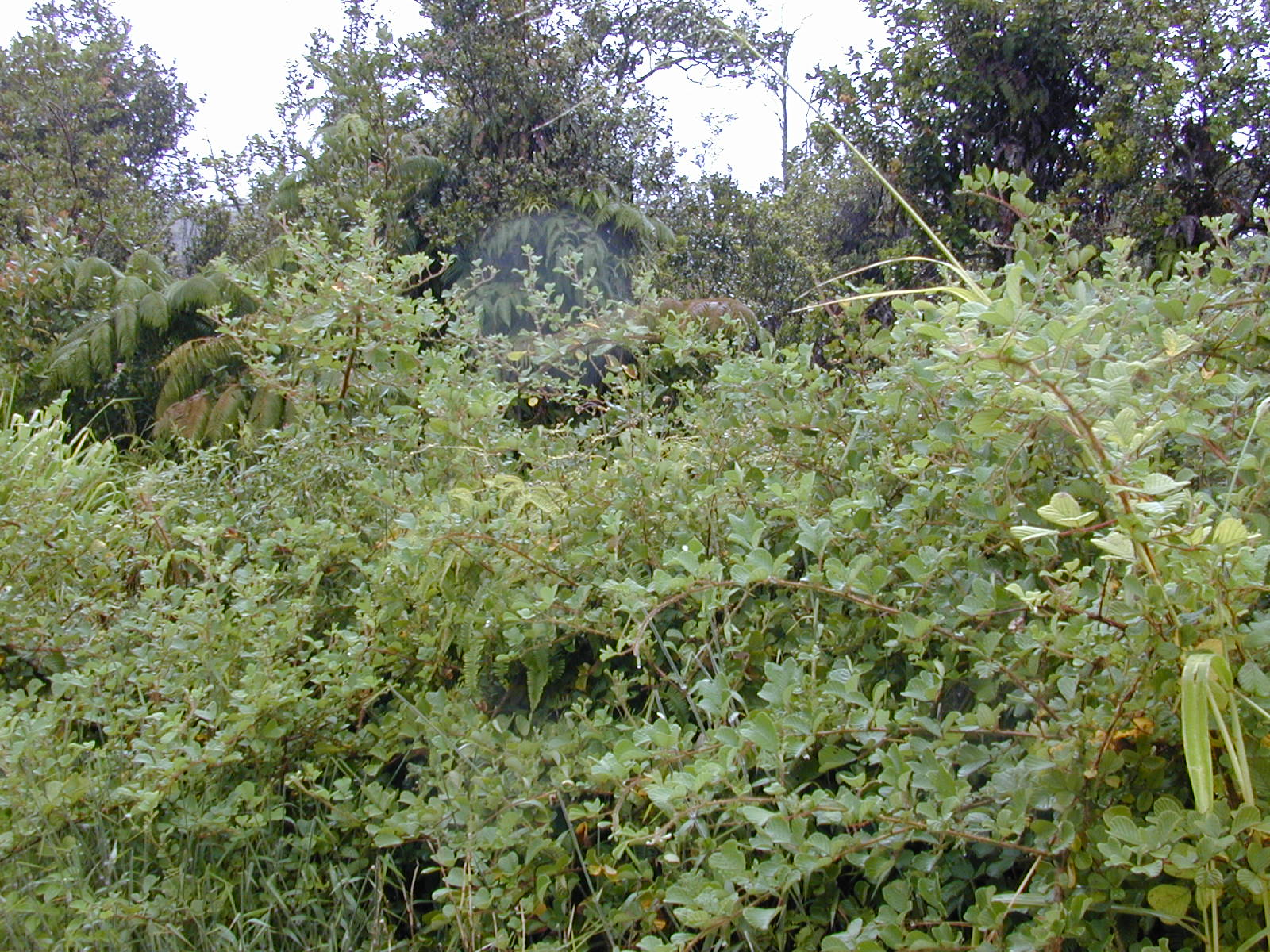 Rubus ellipticus (habit at edge of road and native vegetation). Location: Hawaii, Hwy11 Mountain view